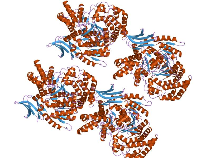 Cartoon representation of the molecular structure of protein registered with 1itw code.